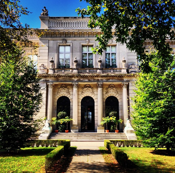 The Elms, Bellevue Ave. Newport